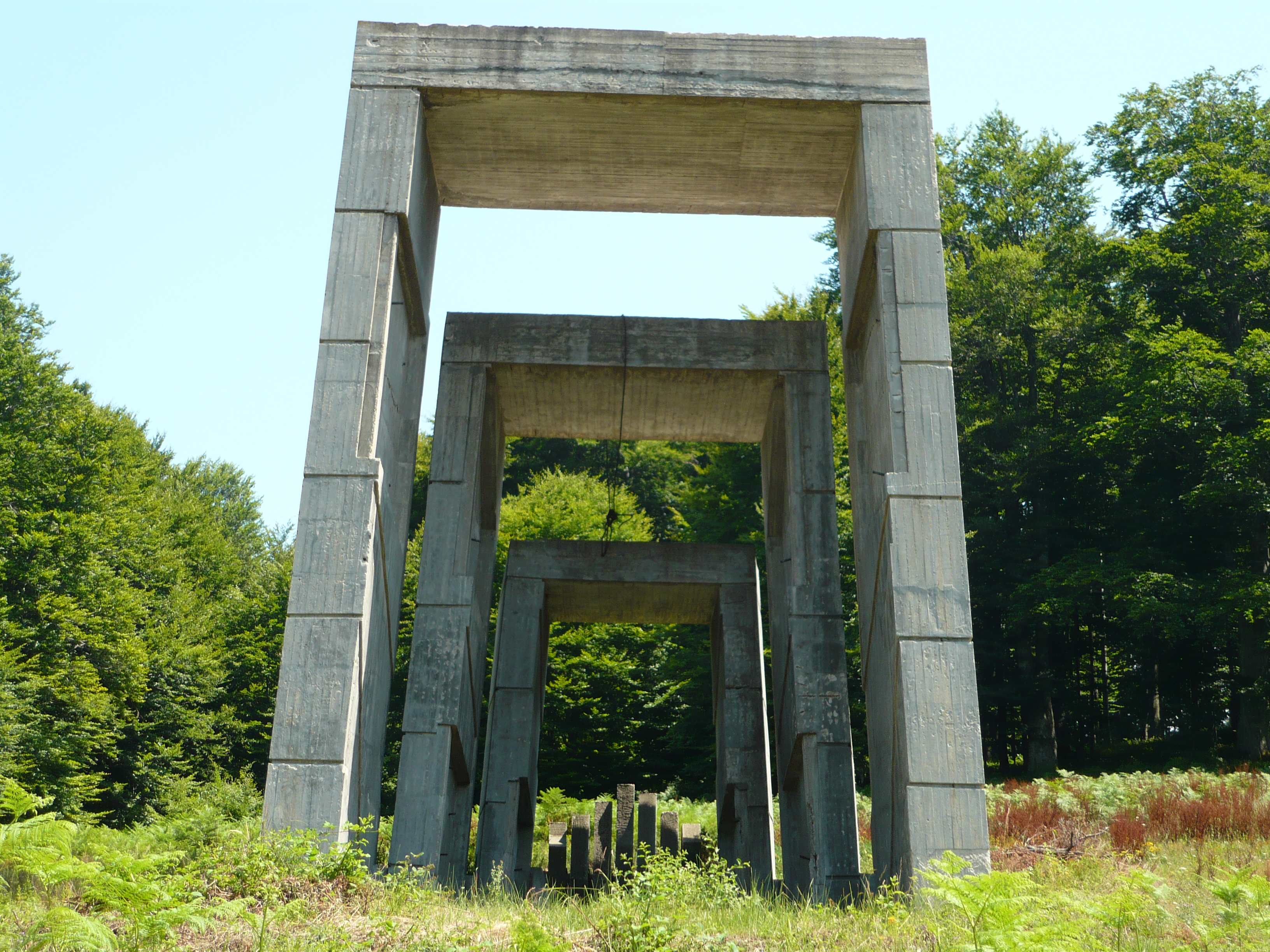 Паметник на загинали партизани на Осеникова поляна в Стара планина